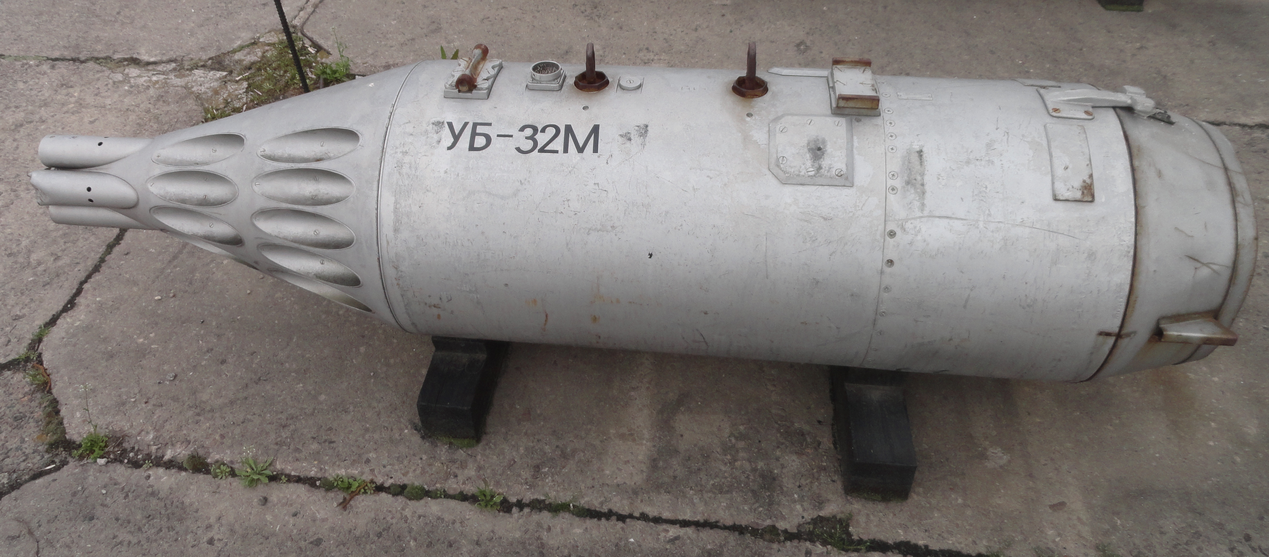 Block NAR UB- 32M for firing unguided rockets S- 5 . Kiev Museum of Aviation .